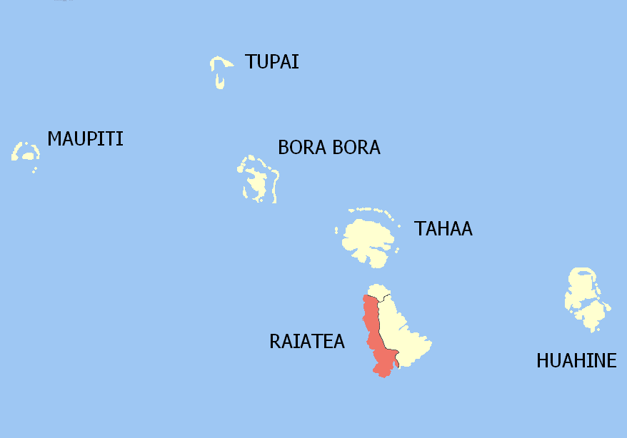 Location of the community of Tumaraa, Raiatea Island, Society Islands